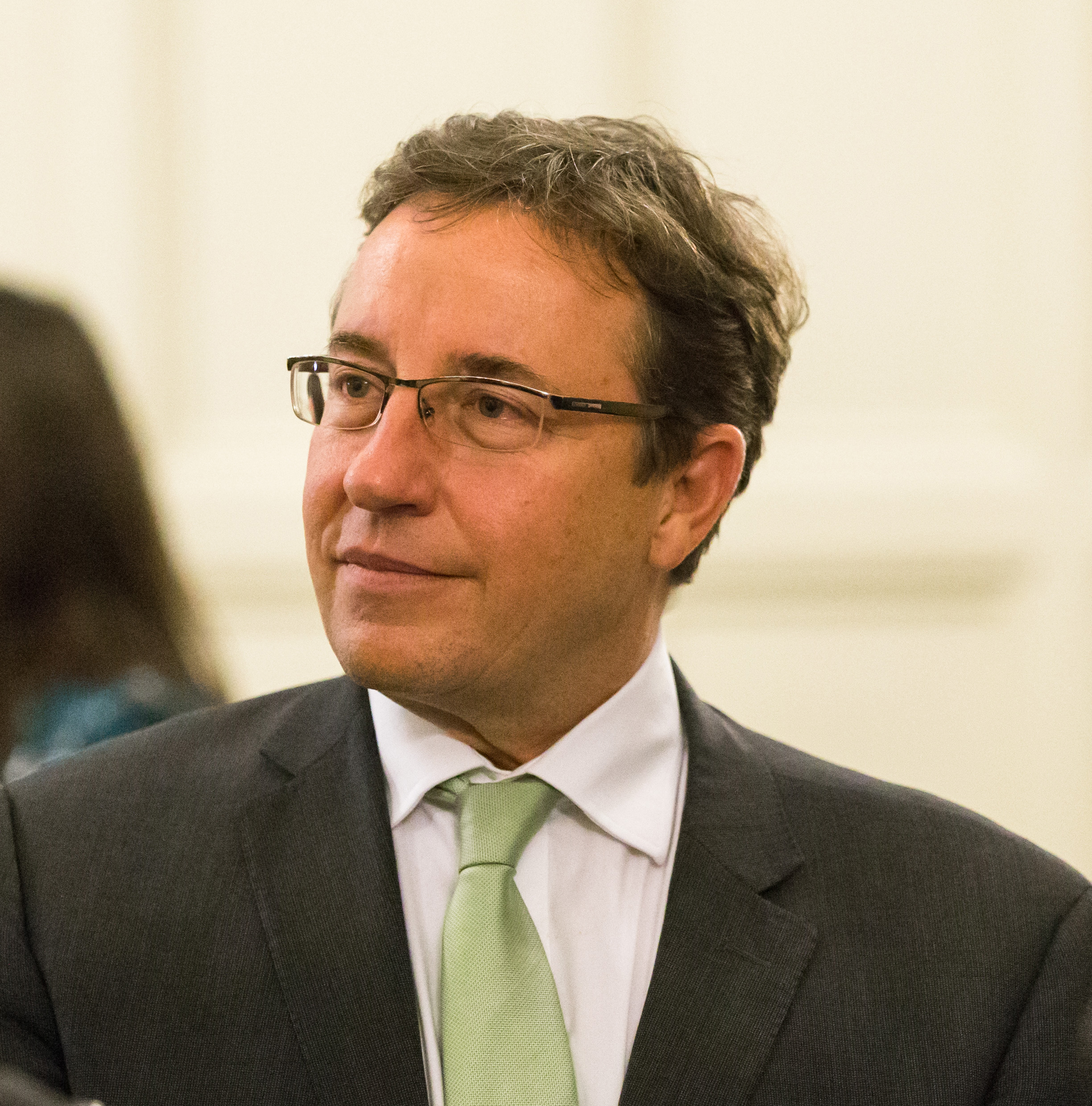 Achim Steiner, director of the Oxford Martin School and former Executive Director of the United Nations Environment Programme UNEP.